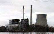 cooling tower and chimneys of the former power station